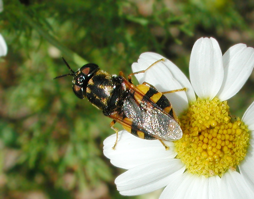 Odonthomyia spec., Mörfelden, Hesse, Germany